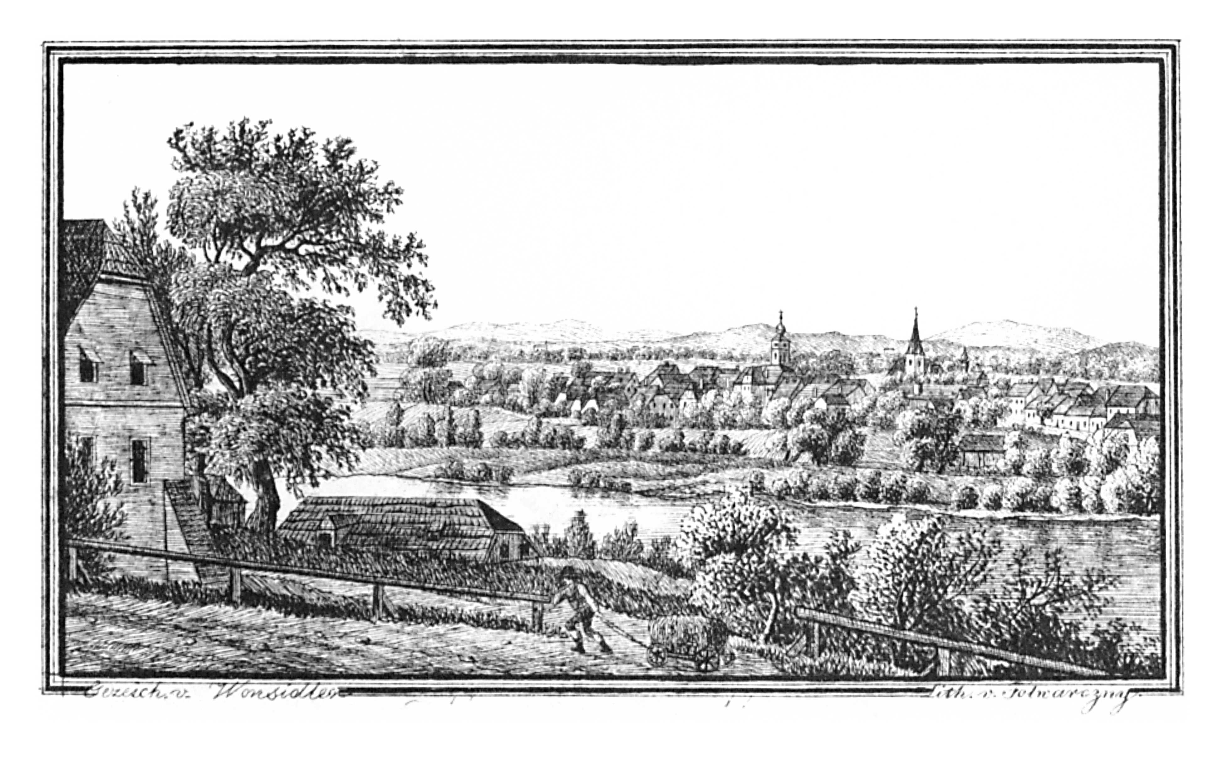 J. F. Kaiser - lithographirte Ansichten der Steyermärkischen Städte, Märkte und Schlösser, Graz 1824-1833 Joseph Franz Kaiser (1786–1859) Alternative names J. F. KaiserDescriptionAustrian printer and editorDate of birth/death 11 March 1786 19 September 1859Location of birth/death Graz (Styria) GrazAuthority control : Q1499963 VIAF: 30629353 ISNI: 0000 0000 3083 0153 LCCN: n87141671 GND: 129880159 NLP: A24960305 WorldCat creator QS:P170,Q1499963 . Scanprojekt Community Projektbudget 2012 This scan or this PDF-file was created within the GLAM-project Bookscanning, supported by Wikimedia Germany and Wikimedia Austria as a part of the community-project to capture books, documents and pictures which are not eligible to copyright or for which the copyright has expired. This document describes or depicts an object which is located in Austria today. Send requests for uncompressed scans to Hubertl. This work is in the public domain in its country of origin and other countries and areas where the copyright term is the author's life plus 100 years or less. You must also include a United States public domain tag to indicate why this work is in the public domain in the United States. This file has been identified as being free of known restrictions under copyright law, including all related and neighboring rights.